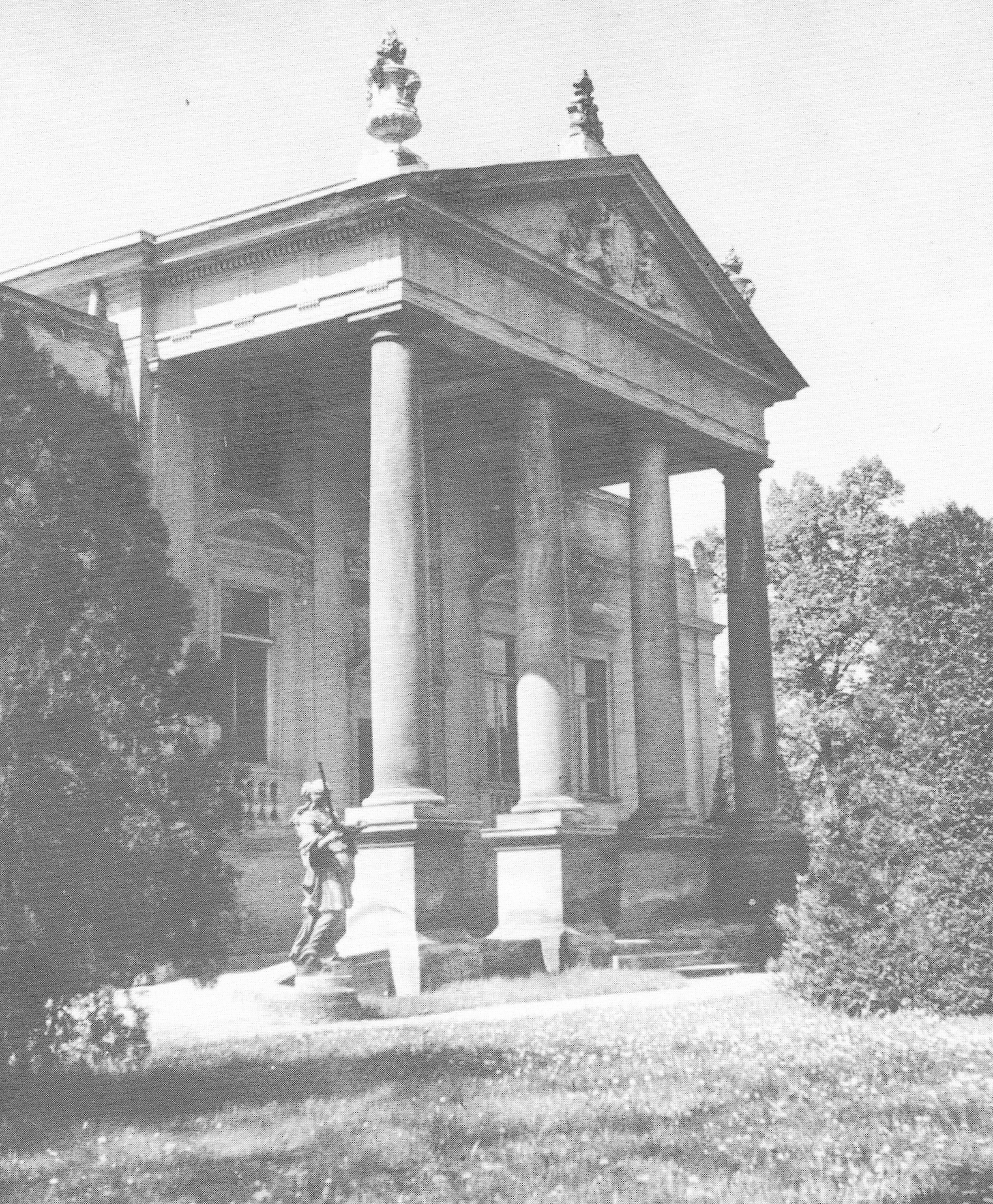 Sopron City Museum opened in 1901 headed until 1914 by Johann Reinhard Bünker (also János Rajnárd Bünker) (1863-1914) teacher and folklorist in Austria at the time of the monarchy in Sopron / Hungary / EU.